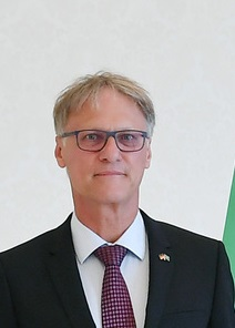 Ilham Aliyev received credentials of incoming Ambassador of Germany